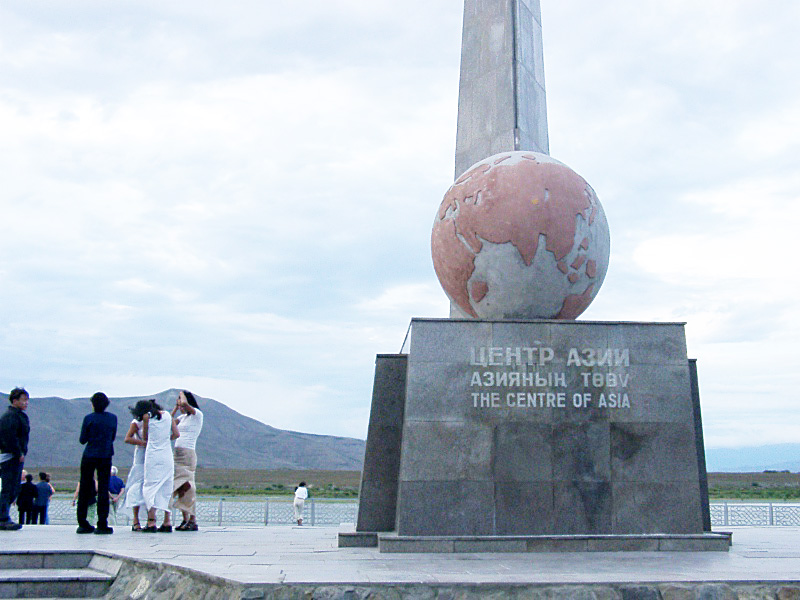 Kyzyl Center of Asia